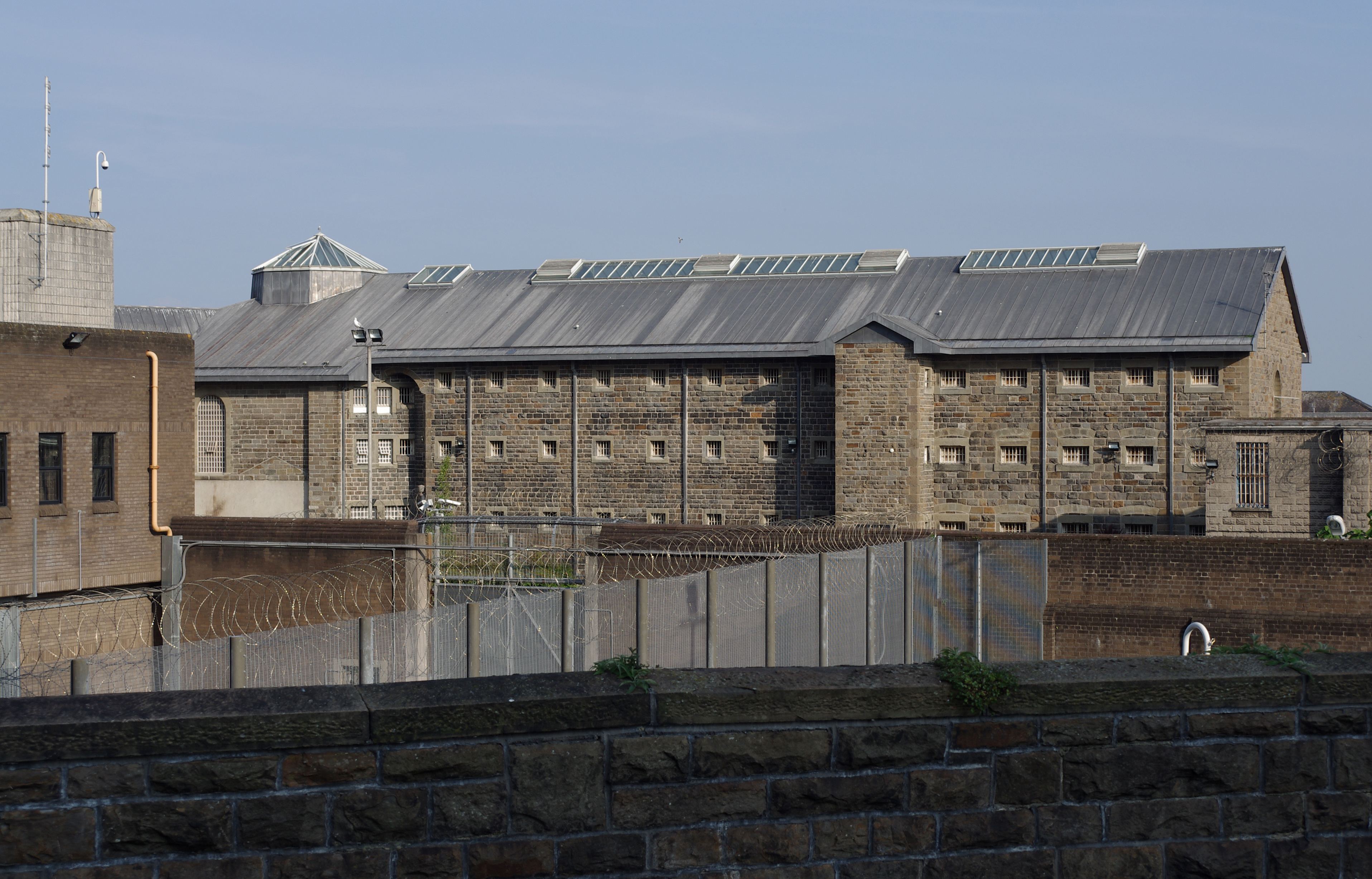 HMP Cardiff, viewed from the platform of Cardiff Queen Street railway station.